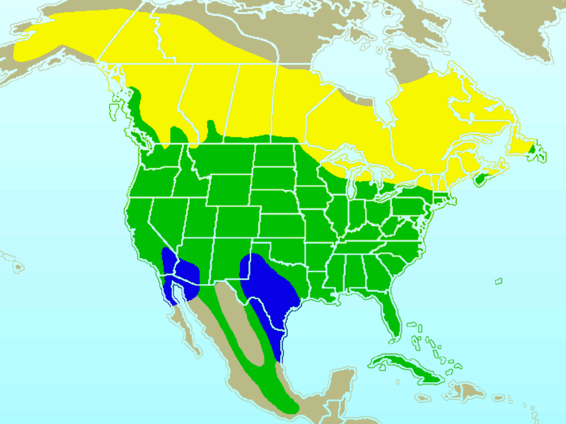 Approximate range/distribution map of the Northern Flicker (Colaptes auratus). In keeping with WikiProject: Birds guidelines, yellow indicates the summer-only range, blue indicates the winter-only range, and green indicates the year-round range of the species.